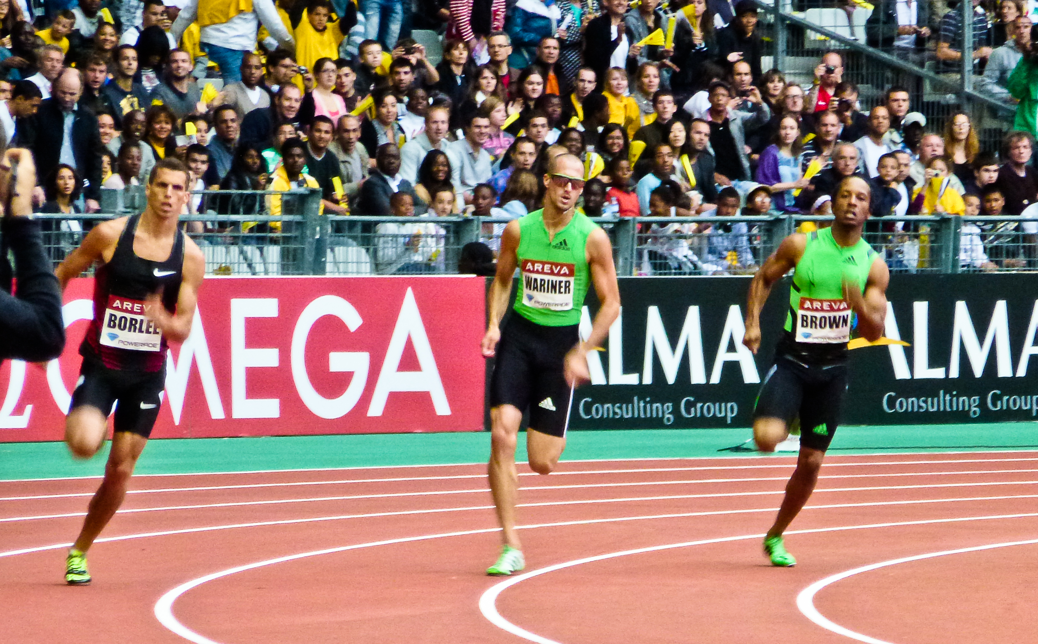 Jonathan BORLEE, Jeremy WARINER & Christopher BROWN